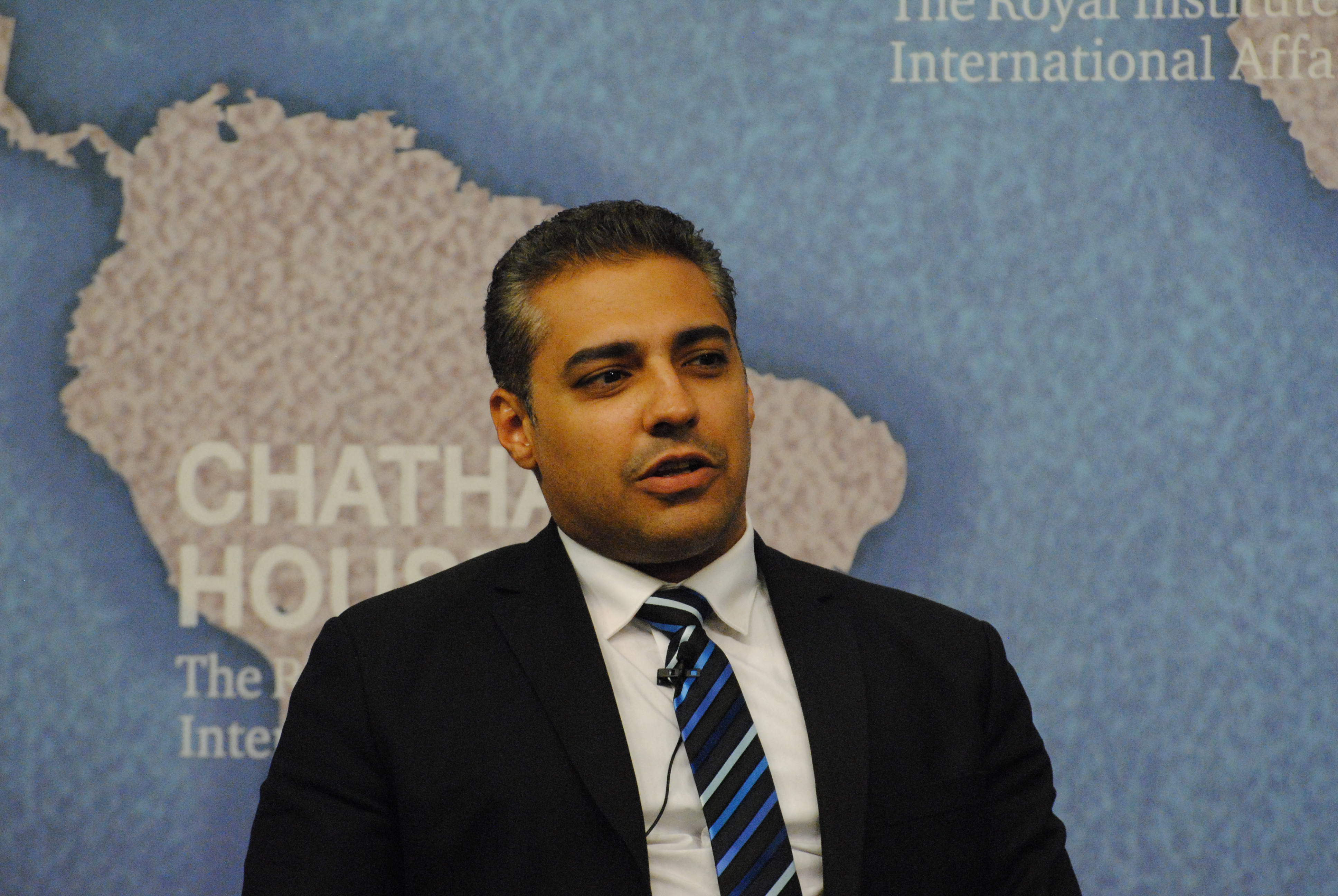 After the Arab Spring: The State of Freedom of Expression, 8 October 2015, cht.hm/1LaTZFD